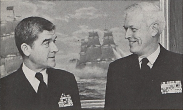 Proceedings, January 1981, page 48: "The Bagleys, Worth H. (left) and David H., are the only brothers ever to attain four-star rank in the Navy. Worth's path to four stars led to a clash of wills between his friend, CNO Elmo Zumwalt, and Navy Secretary John Warner